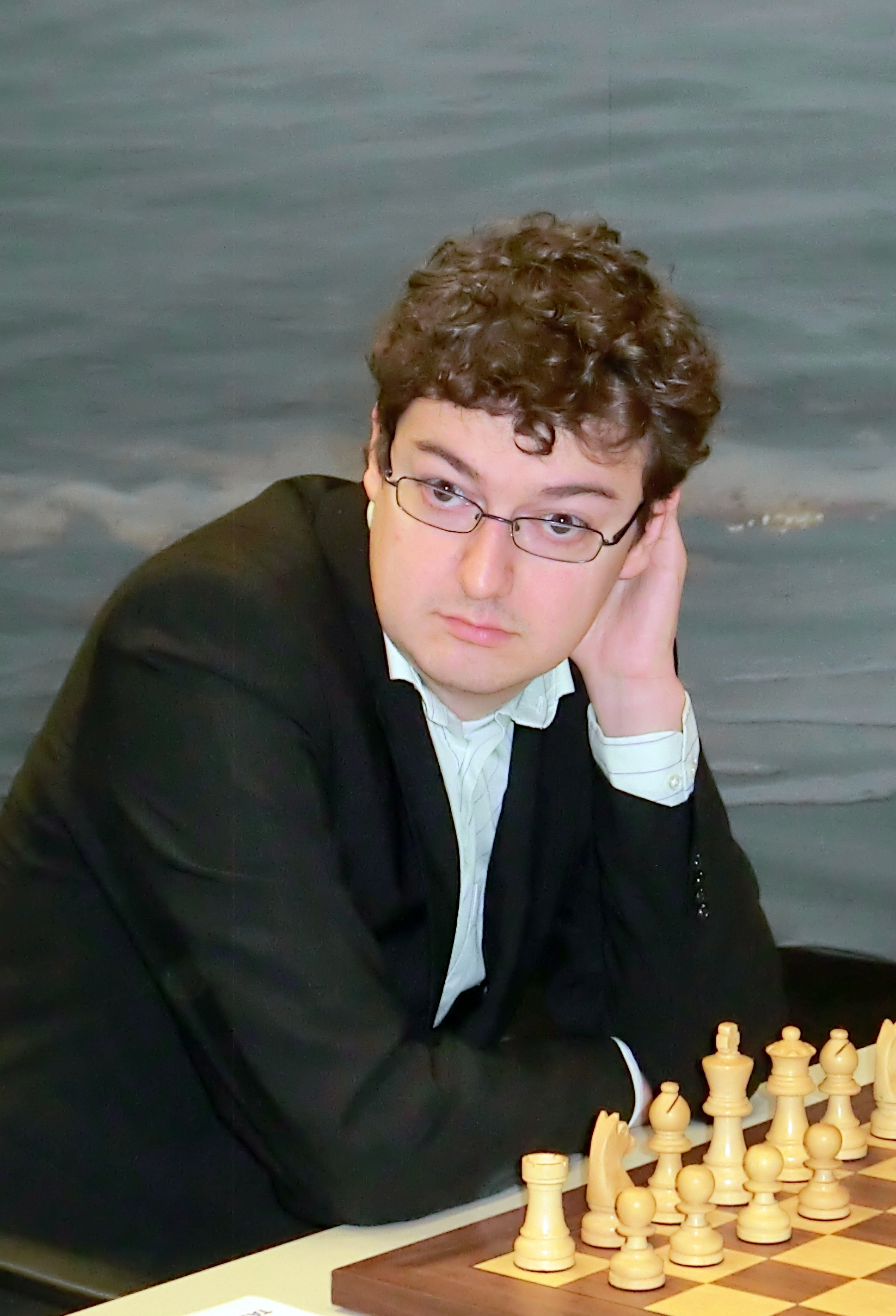 Erwin l'Ami, chess grandmaster from the Netherlands